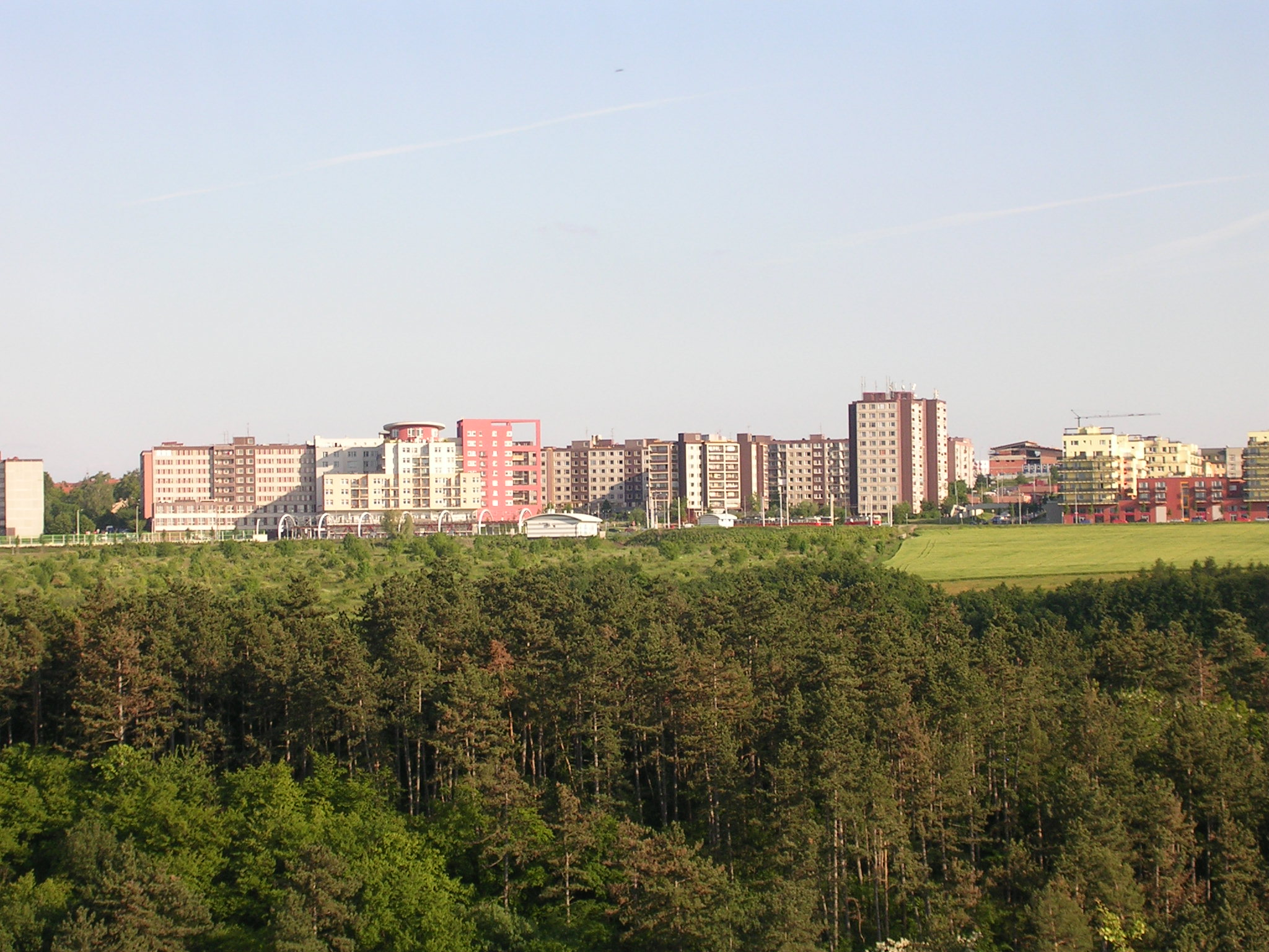 Hlubočepy, Prague, the Czech Republic. Barrandov Housing Estate and Prokop's Valley.